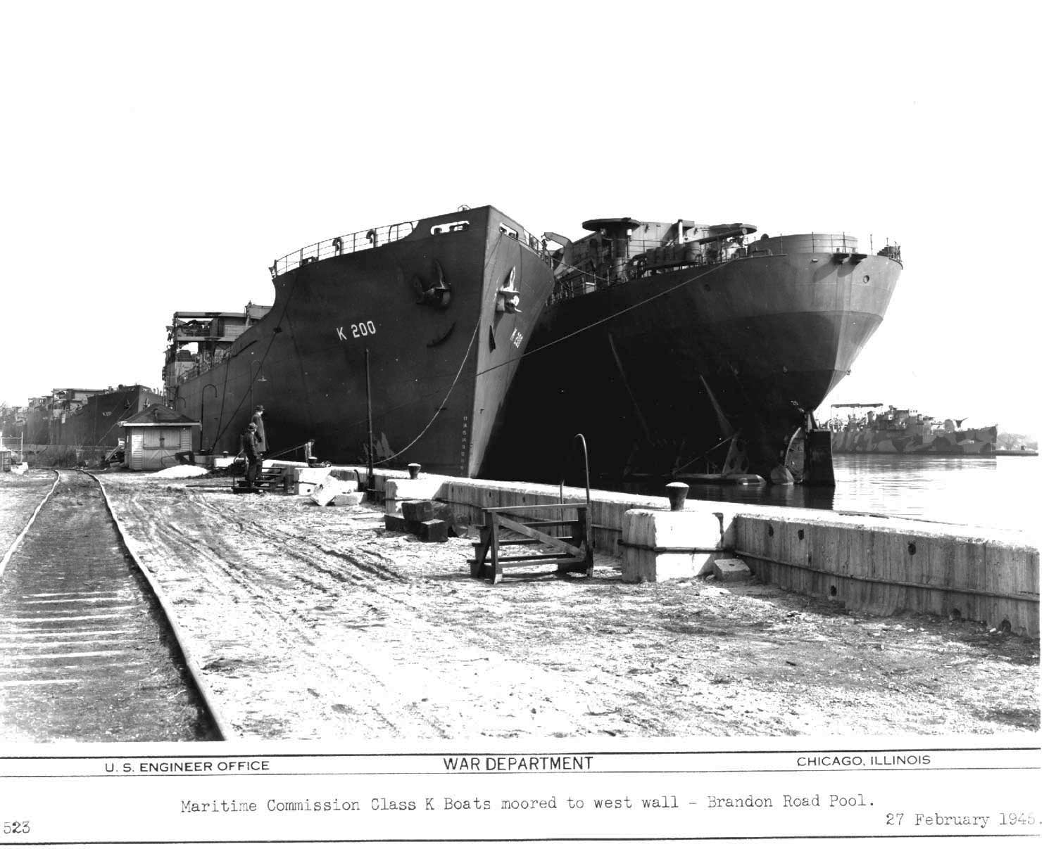 PCU Pembina (AK-200) and other AKs moored at the west wall, Brandon Pool, Chicago, ILL., 27 February 1945, waiting transit to New Orleans for fitting out and commissioning. Across the Pool is PCU Donald W. Wolf (APD-129) also in transit to New Orleans for commisisoning.